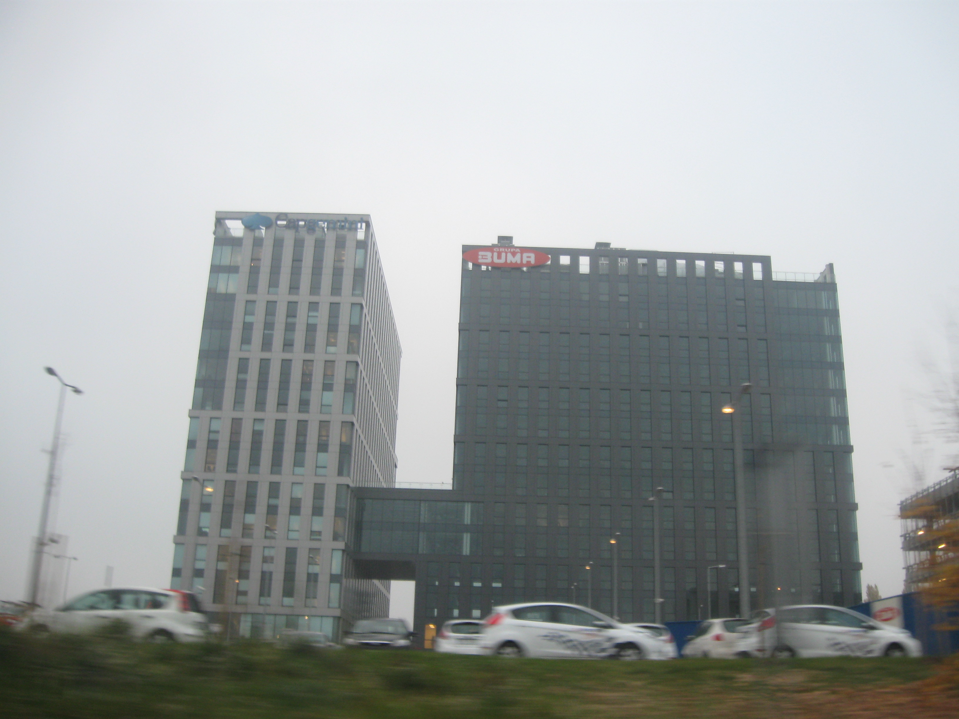 Towers "Quatro Business Park" in 2011 year.